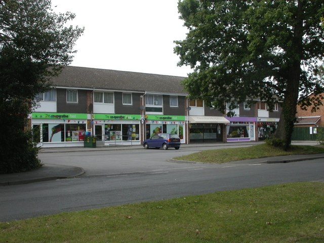 Hordle, shopping parade On Stopples Lane, with pet supplies, clothes alterations, Co-op, beauty salon, take-away.